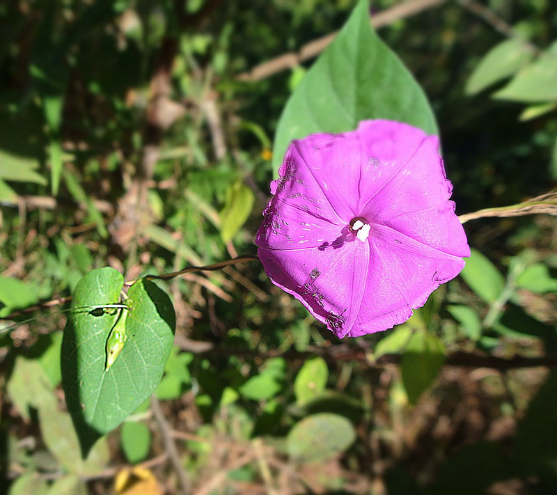 Likely the same as I. purga, and used as a purgative. Native to Mexico, but planted more widely.